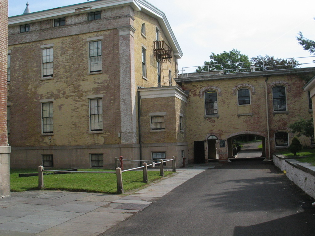 Among the Snug Harbor Culture Center